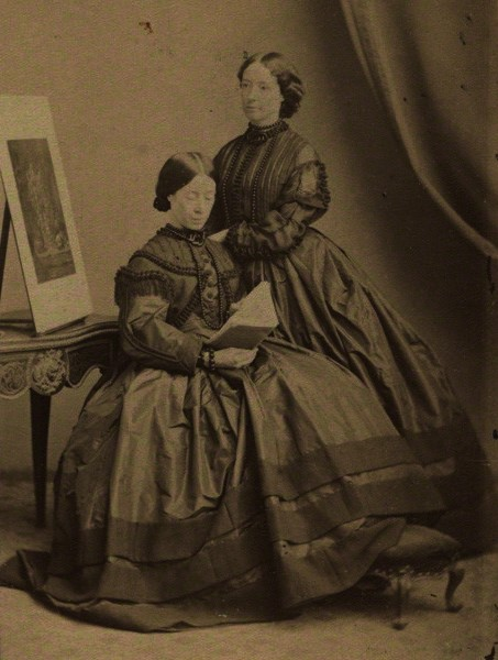 by Maull & Co, albumen carte-de-visite, circa 1860